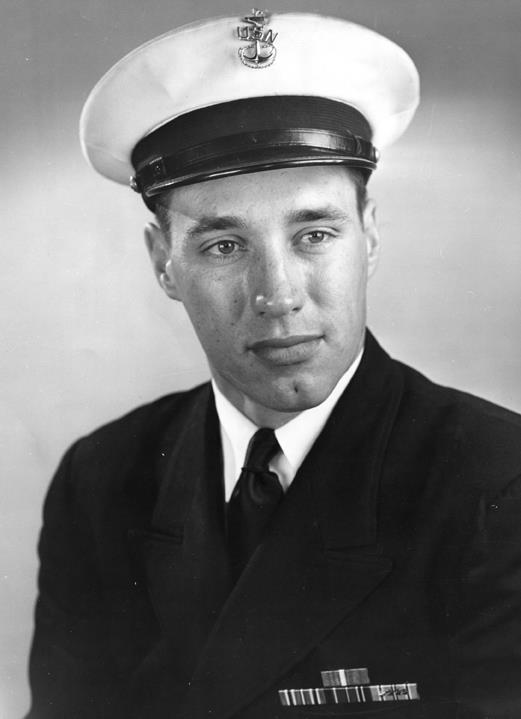 Bob Feller in his naval uniform, during World War 2.